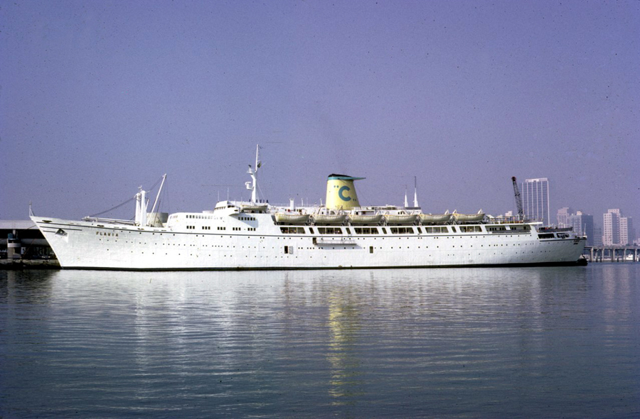 The cruise ship Flavia moored in Miami's harbor in May 1981.